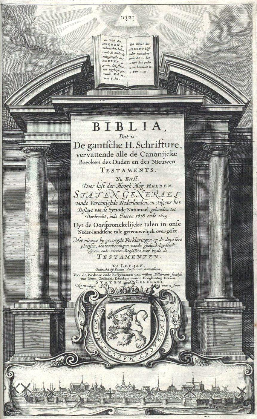 Title page of the Dutch Statenvertaling (State Translation). English transcript: BIBLE, that is: The entire H. Scripture, containing all the Canonical Books of the Old and the New TESTAMENTS. Now first, by order of the High LORDS STATES GENERAL of the United Netherlands, and according to the Decision of the National Synod, held at Dordrecht, in the Years 1618 and 1619. From the Original languages into our Dutch language faithfully translated. With new added Clarifications of the dark passages, notes of the paralleled Texts, and new Indexes of both TESTAMENTS. At LEYDEN, Printed by Paulus Aertsz. of Ravensteyn, for the widow and heirs of the late Hillebrant Jacobsz. of Wouw, Appointed Printers of the High LORDS STATES GENERAL. With Privilege for 15 Years.